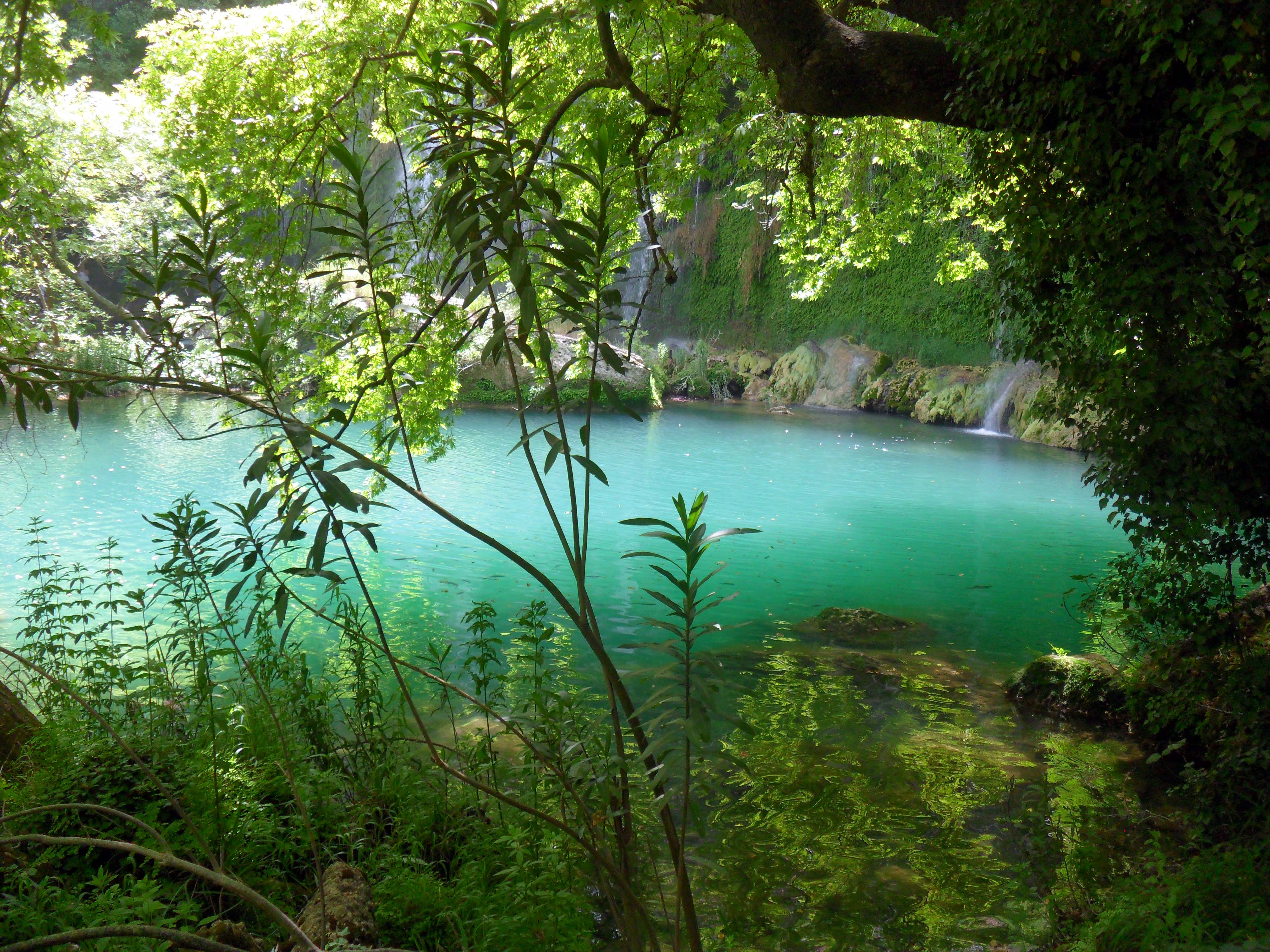 From Kurşunlu waterfall, Antalya Province, Turkey